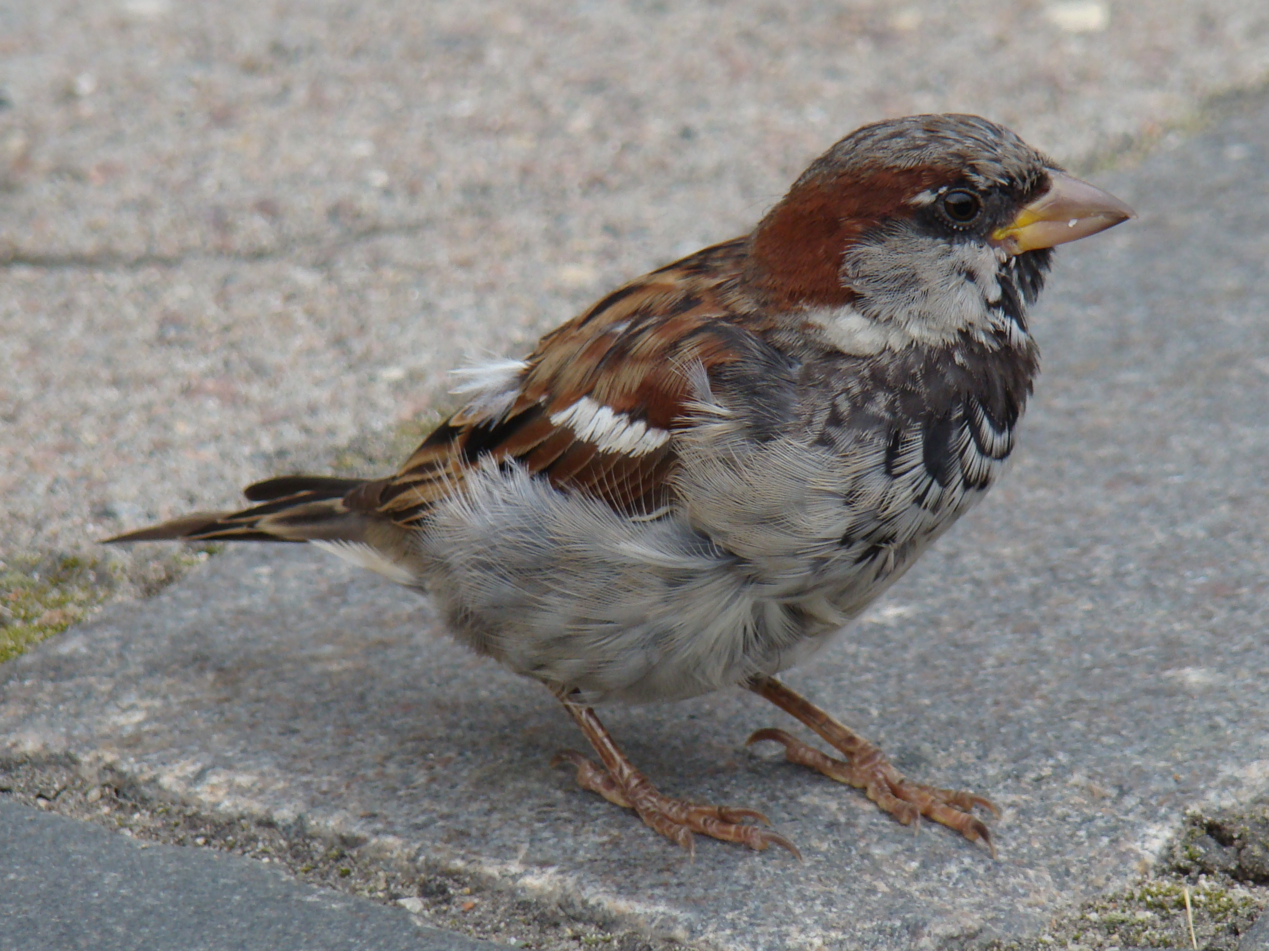 Photo of a male House Sparrow (Passer domesticus (male)) in Vilnius, Lithuania.